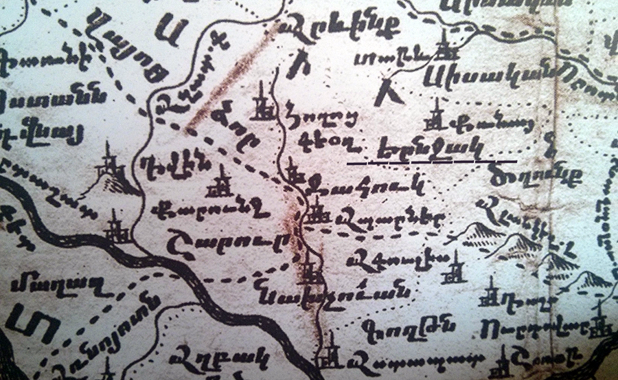 Printed in Venice Armenian Highland map by Ignatius Khachaturyan in 1751. Part of Nakhijevani region.